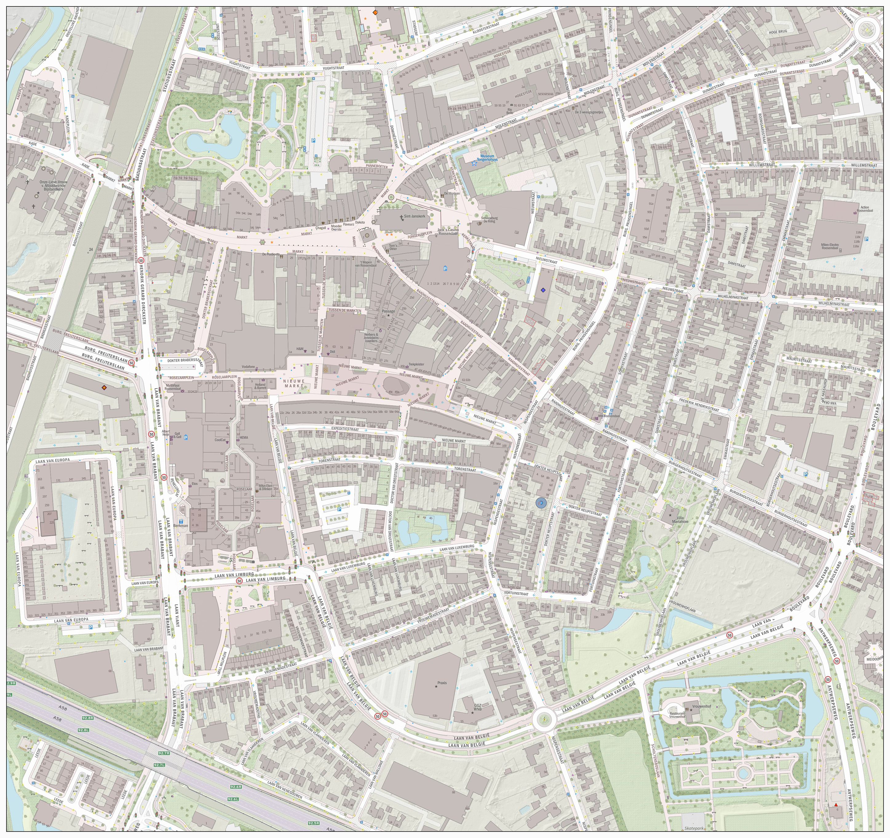 High resolution topographic rendering of the central part of the town of Roosendaal, combining elements of the new Dutch Base Registry of Large-scale Topography (BGT), CC-BY Dutch Kadaster. Also incorporated: elements of the OpenStreetMap (OSM), CC-BY OSM contributors.